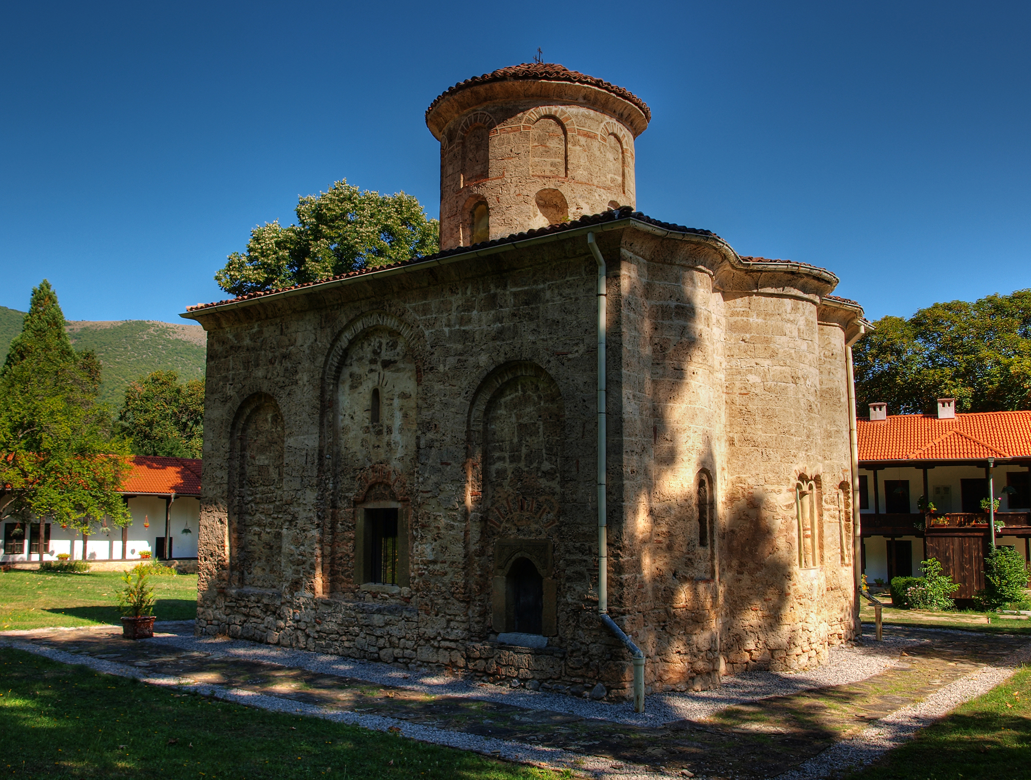 Main church of the Zemen Monastery near Zemen, Bulgaria: side view, HDR